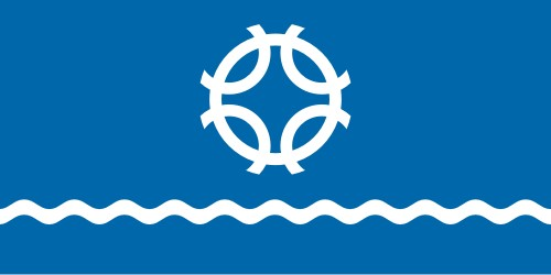 Flag of Hanila Parish